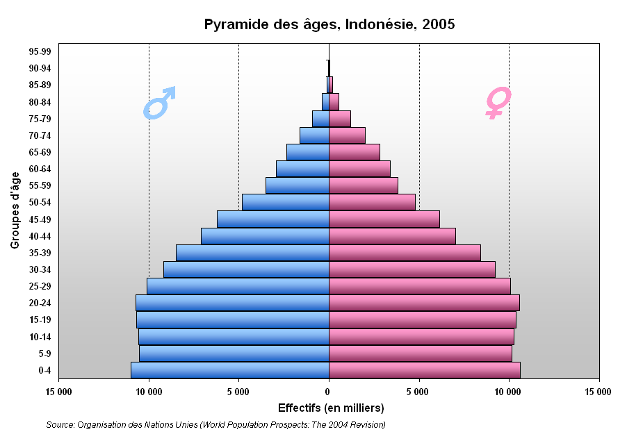 Indonesia Population pyramid, 2005